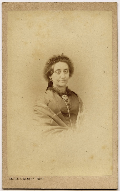 Charlotte Caroline Mathilde Schram, wife of Mozart Waagepetersen